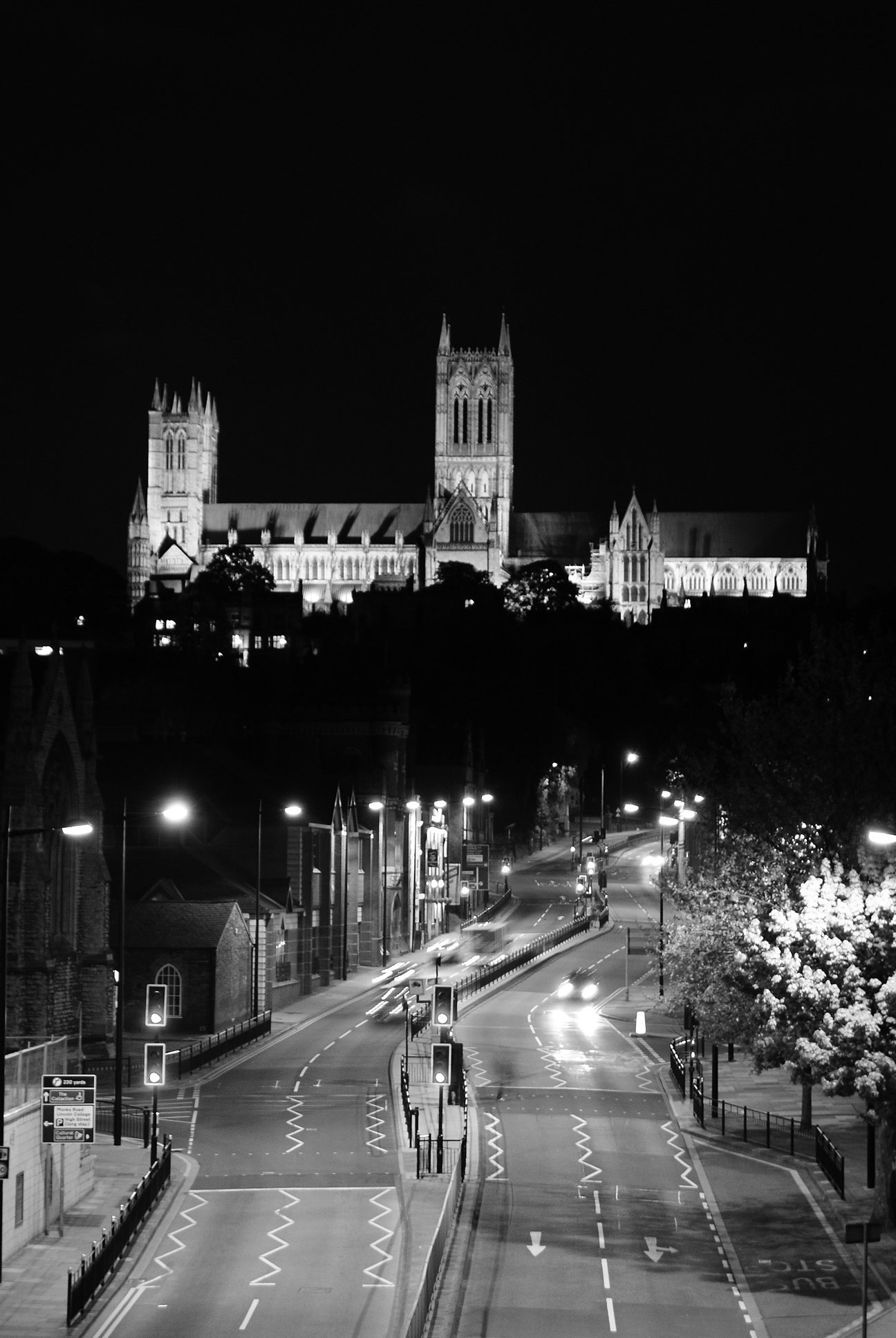 Lincoln Cathedral seen at night from Broadgate